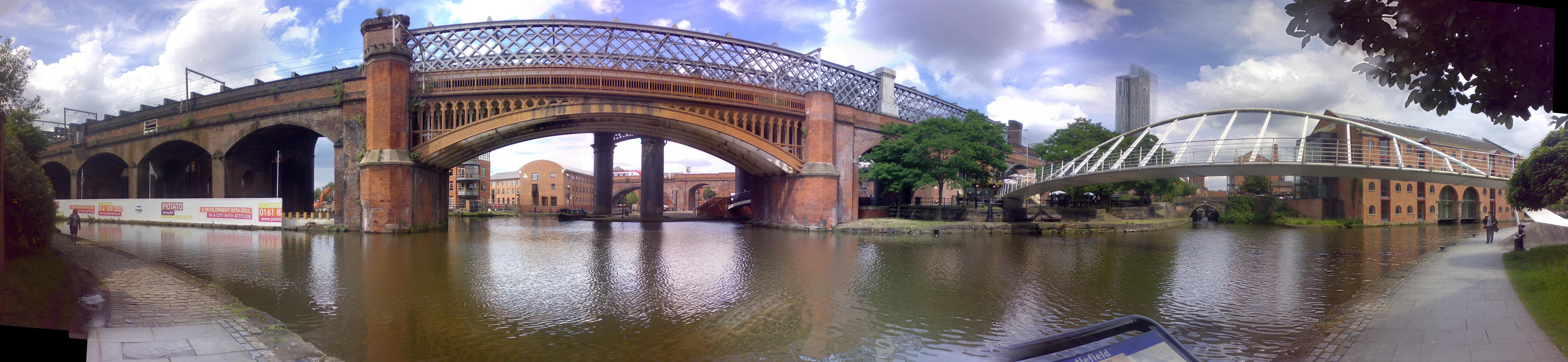 A panoramic image of the Castlefield area